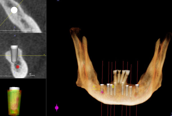 CT Scan for Dental Implants. This shows eight dental implants superimposed over the lower jaw in areas of maximum bone and four teeth that will be extracted.